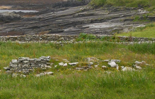 Ruined chapel and rock beach, Shapinsay The chapel ruins are difficult to see due to the one metre high rough grass. The drystone wall at the centre is in good repair. The rock sheeted beach adjoins Linton Bay.